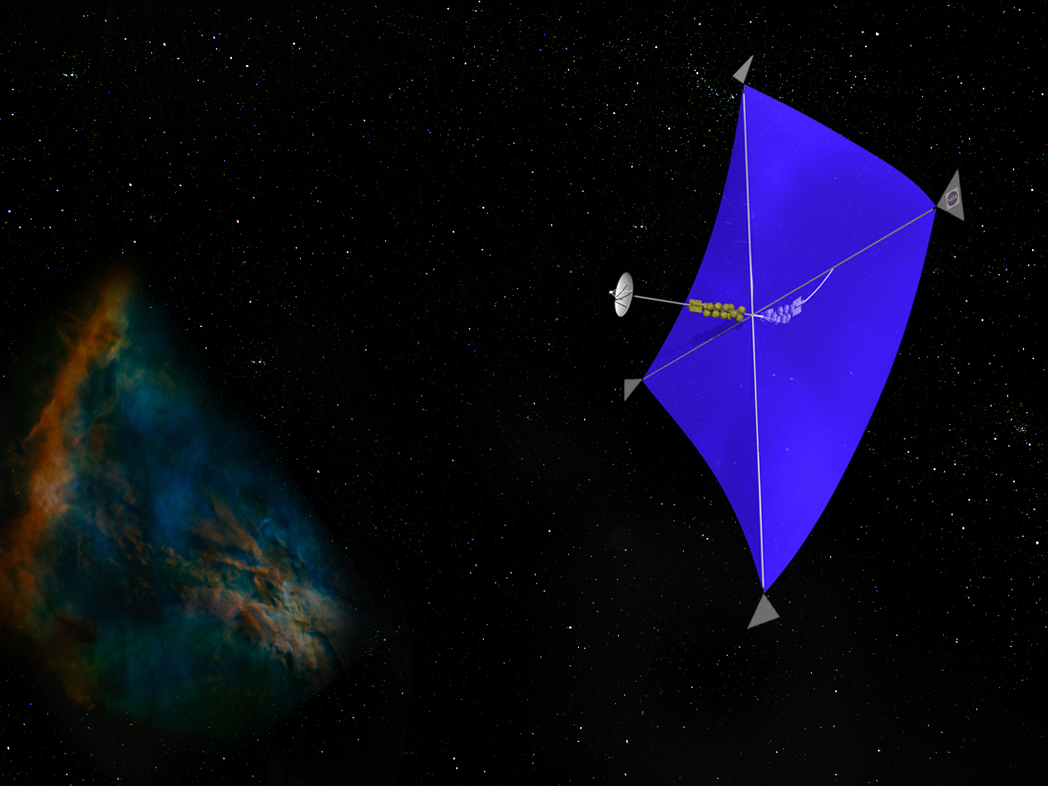 In an artist's rendition, a four-quadrant solar sail propulsion system, complete with payload, hovers at a fixed point in space in Earth orbit. Sunlight reflected off the sail provides the necessary thrust to maintain the spacecraft's orbit. The giant mirror-like sails are made of lightweight, reflective material 40-to-100-times thinner than a single sheet of writing paper and measure approximately 100 meters along each side. The stripes imbedded within the sail during fabrication ensure that any rips that may occur during deployment, or as a result of collision with meteoroids, will not spread across the entire sail. Two teams selected by NASA to lead hardware design and development of solar sail system concepts are scheduled to conduct ground demonstrations of their 20-meter subscale designs in April and June 2005. Solar sail propulsion is under development by NASA scientists and their industry partners, led by the In-Space Propulsion Technology Office at NASA's Marshall Space Flight Center in Huntsville, Ala. The In-Space Propulsion Technology Program is implemented by the Marshall Center on behalf of NASA's Science Mission Directorate in Washington.